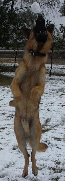 Fully grown male German Shepherd dog playing in the snow